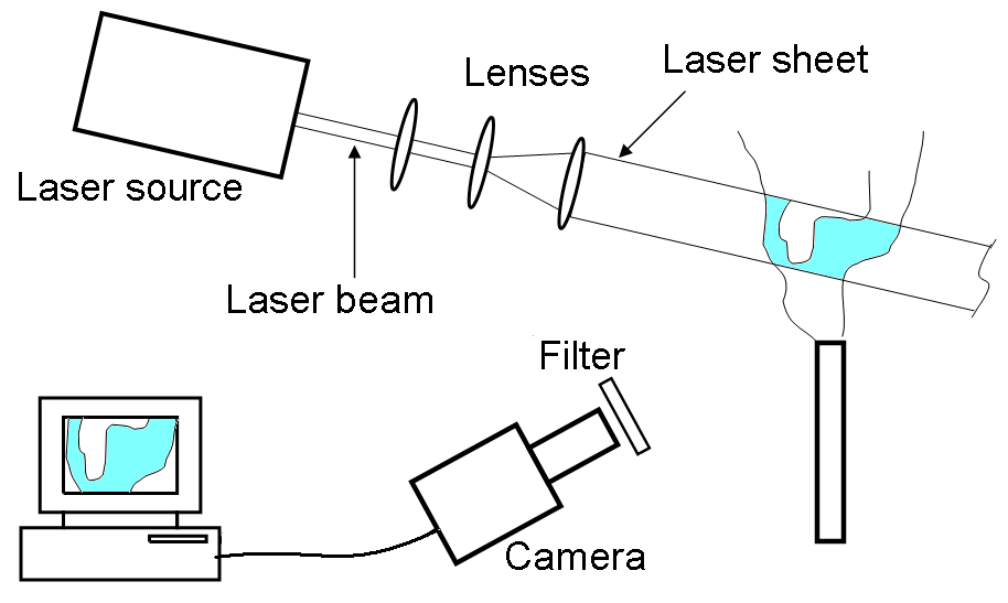 The figure shows a typical schematic of an experimental PLIF setup.